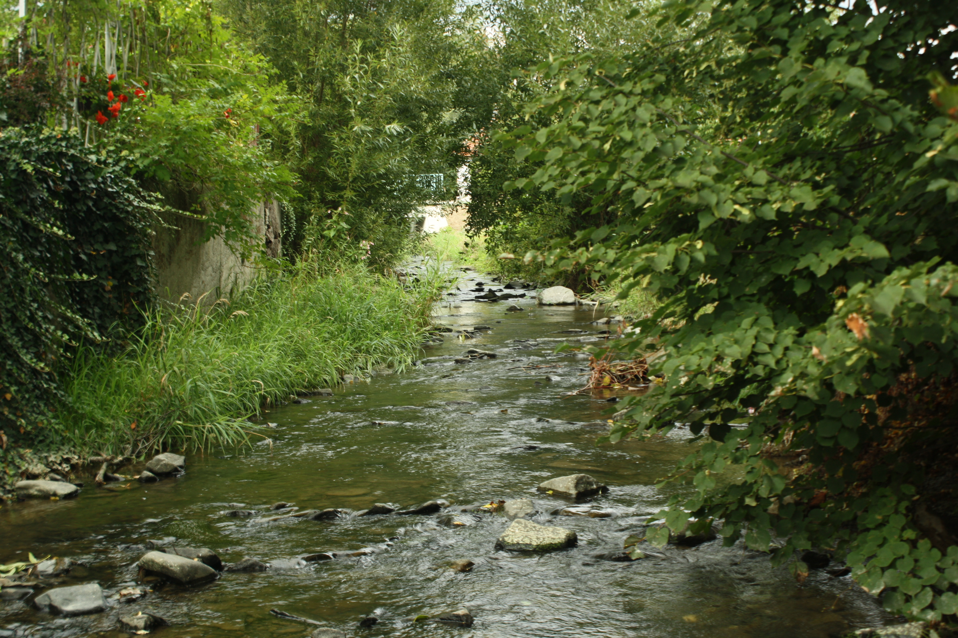 Stream Velička in municipality Lhotka (Hranice), Přerov District, Olomouc Region, Czechia